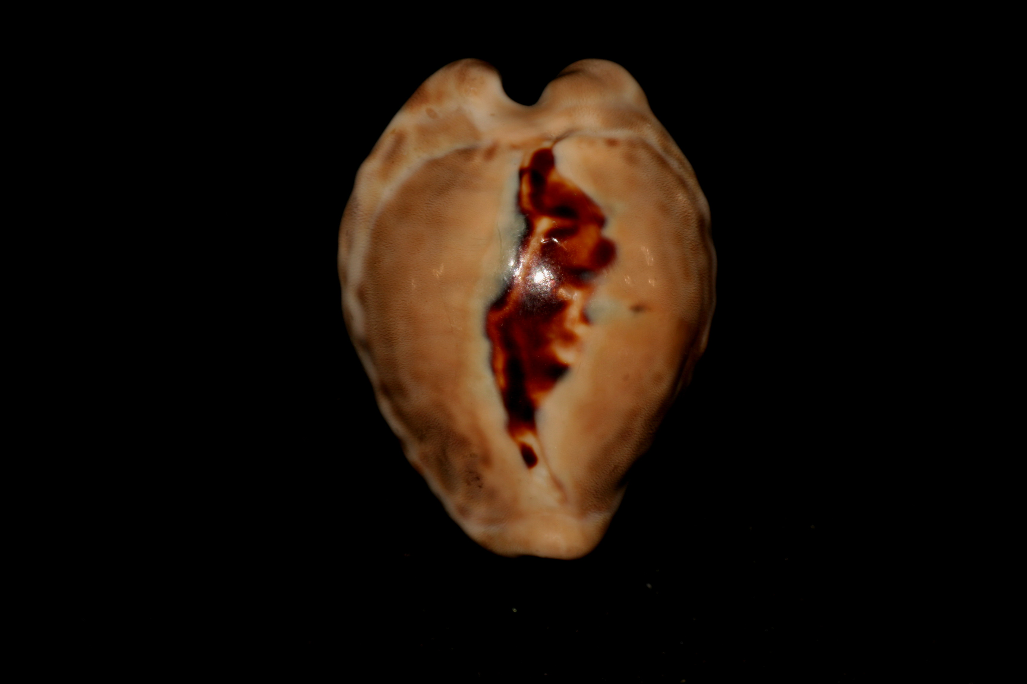 Cypraeidae: Barycypraea teulerei (Cazenavette, 1846)